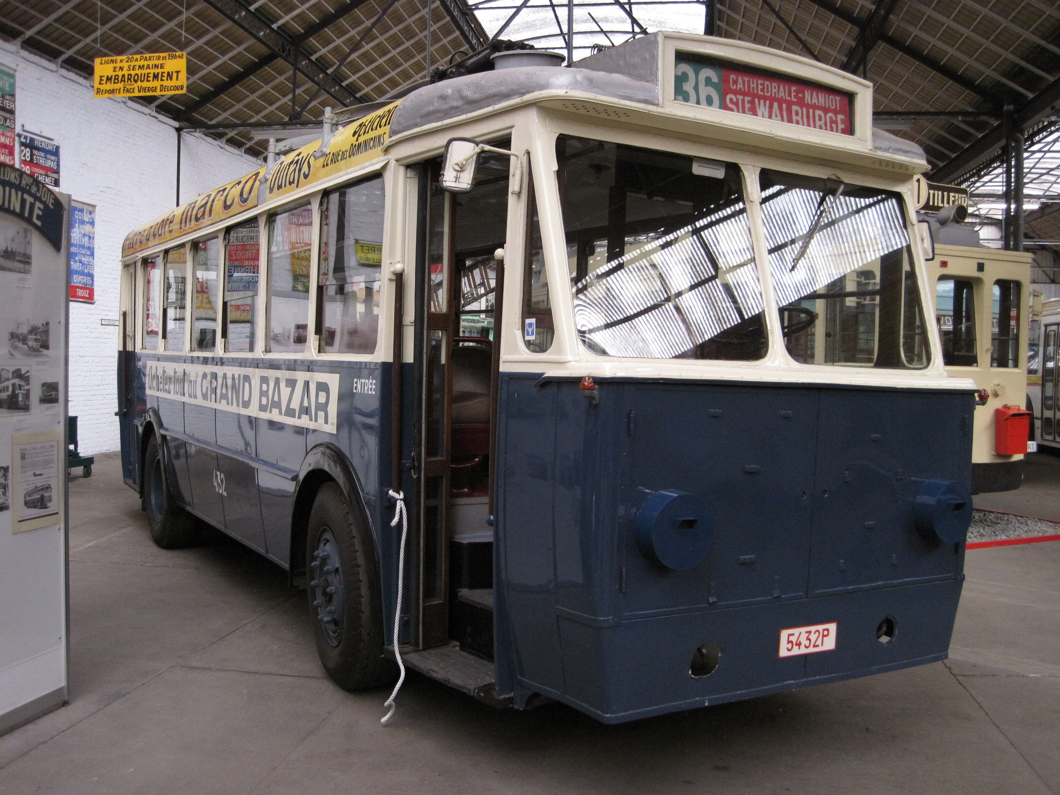 TULE Trolleybus 432